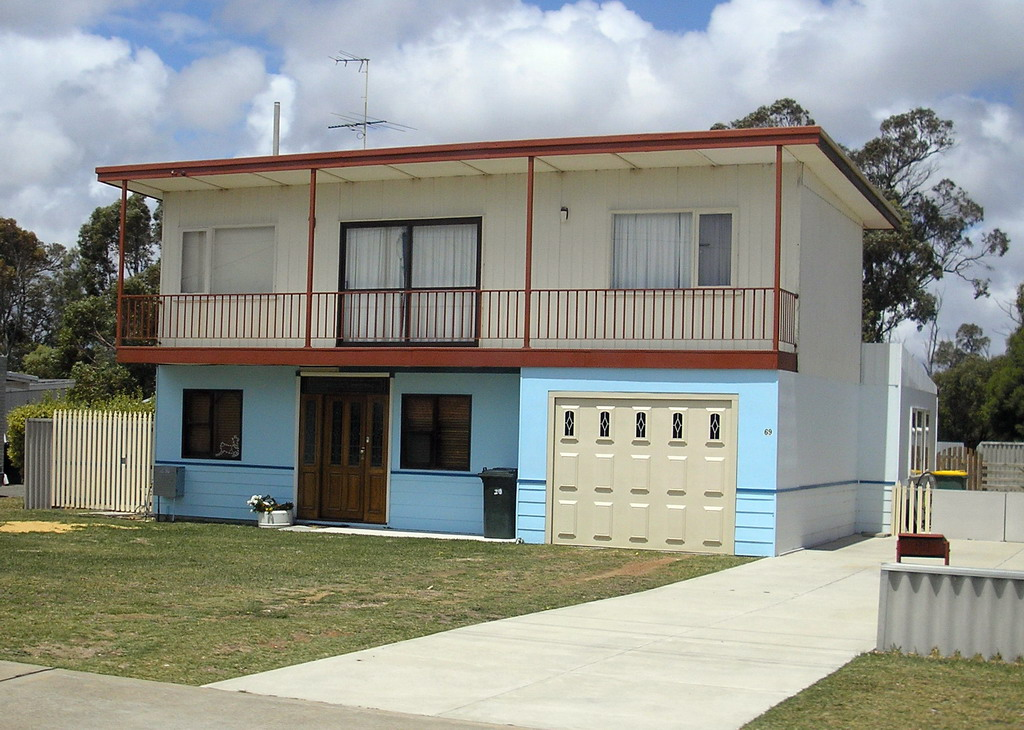 House at Mandurah, Western Australia.